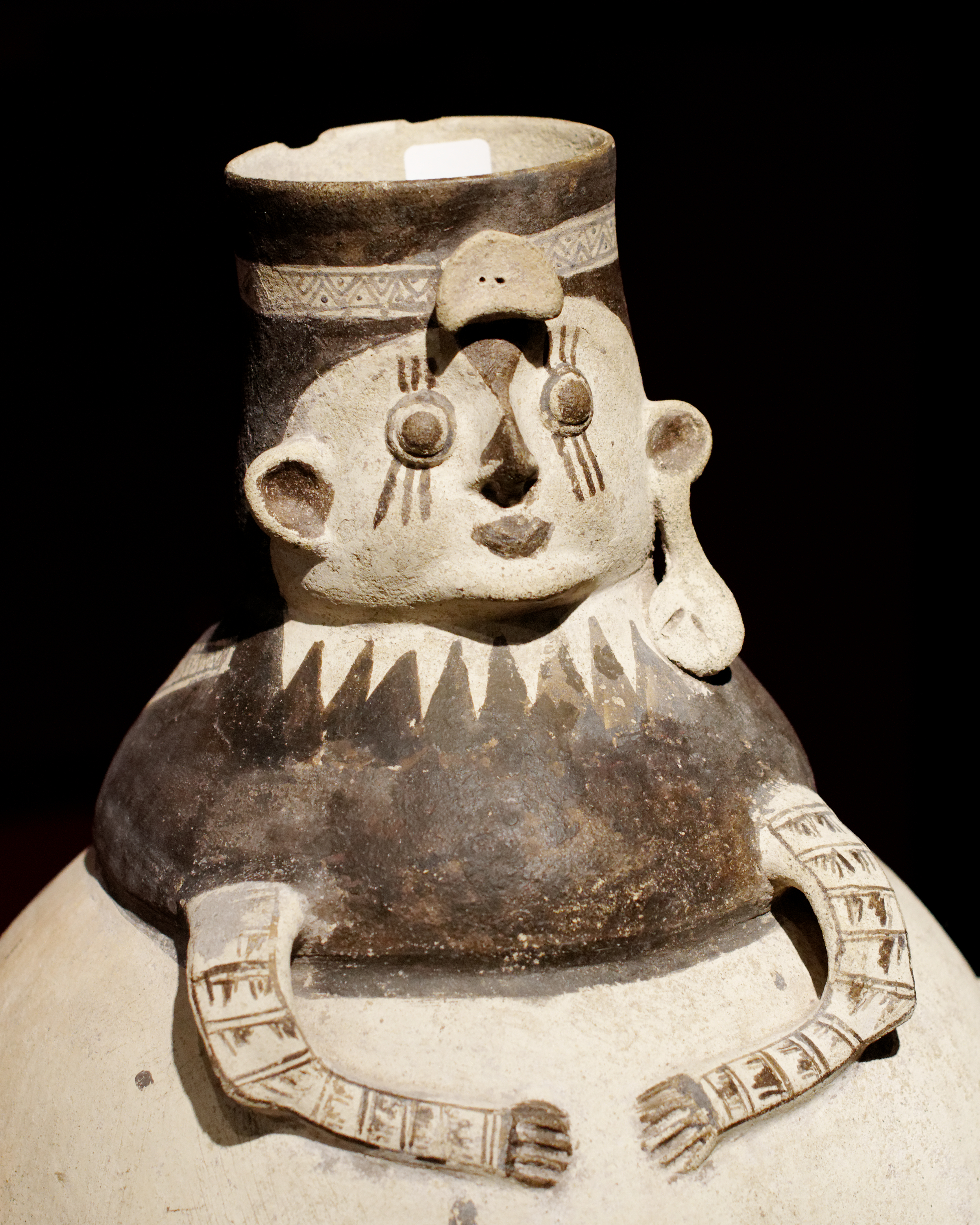 Large anthropomorphic urn. Chancay culture, central coast of Peru.